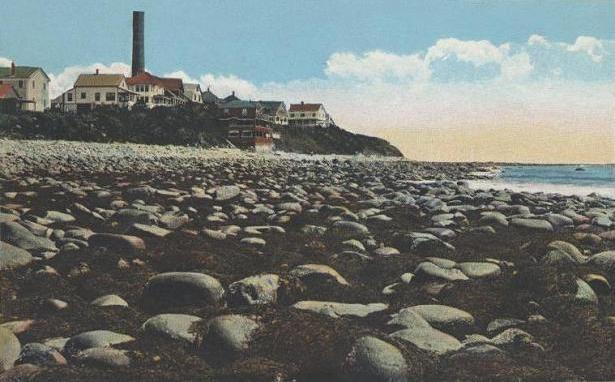 Great Boar's Head, Hampton Beach, NH; from a c. 1920 postcard.